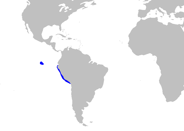 Distribution map for Heterodontus quoyi